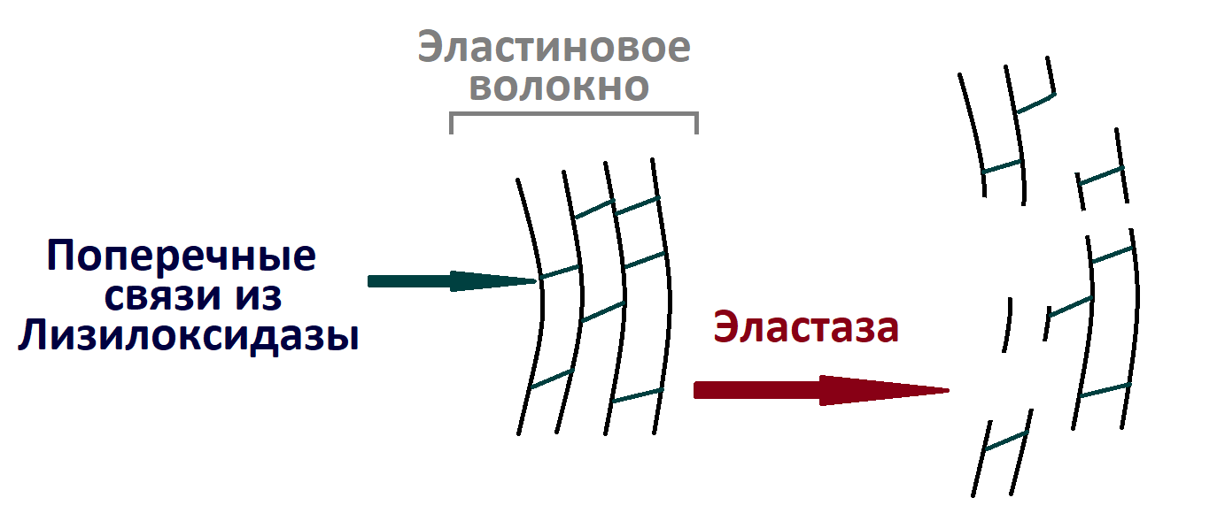 elastase